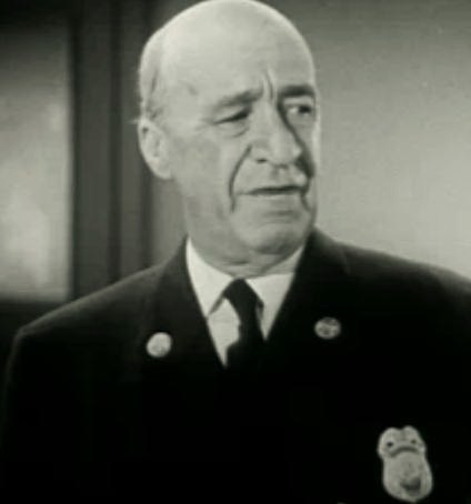 J. Farrell MacDonald in The Last Alarm - cropped screenshot